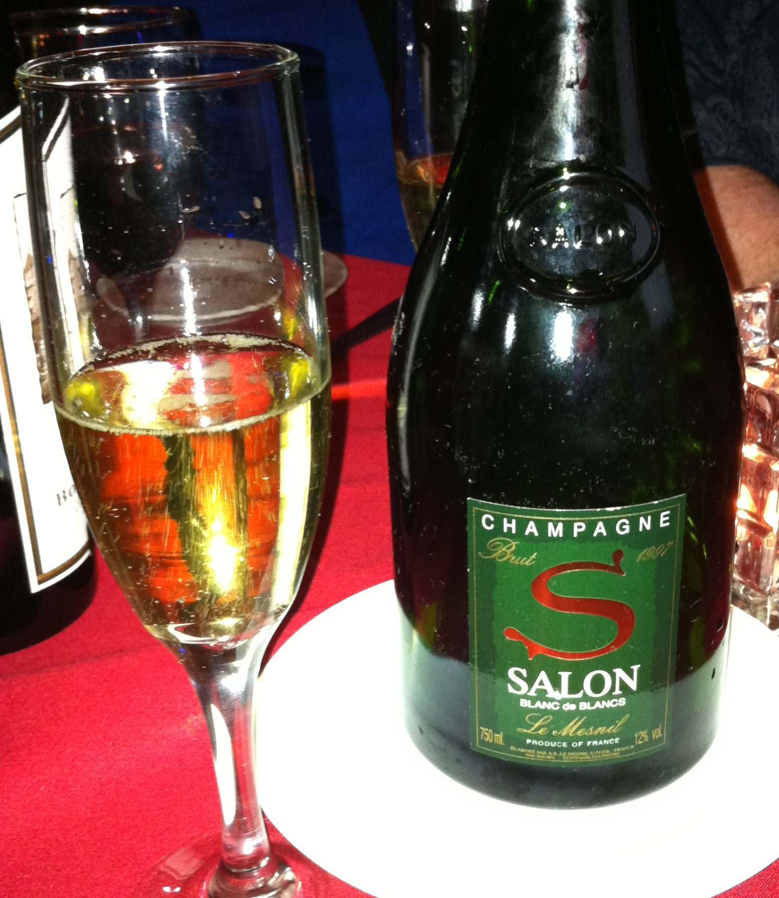 French Champagne Salon